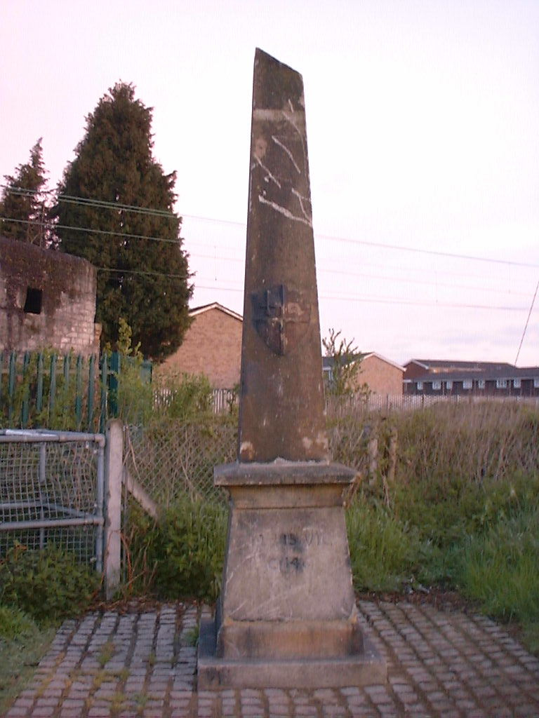 Coal tax obelisk "Nail" Number 21 on the east side of the railway line, north side of Slipe Lane by level crossing at Wormley, England at grid reference TL 369 051. Taken 1 May 2003 at about the same time as this was happening in Oxford. More images. The hexagonal wartime "pillbox" visible in the background on the left of this picture shows up very clearly on this Google aerial image.